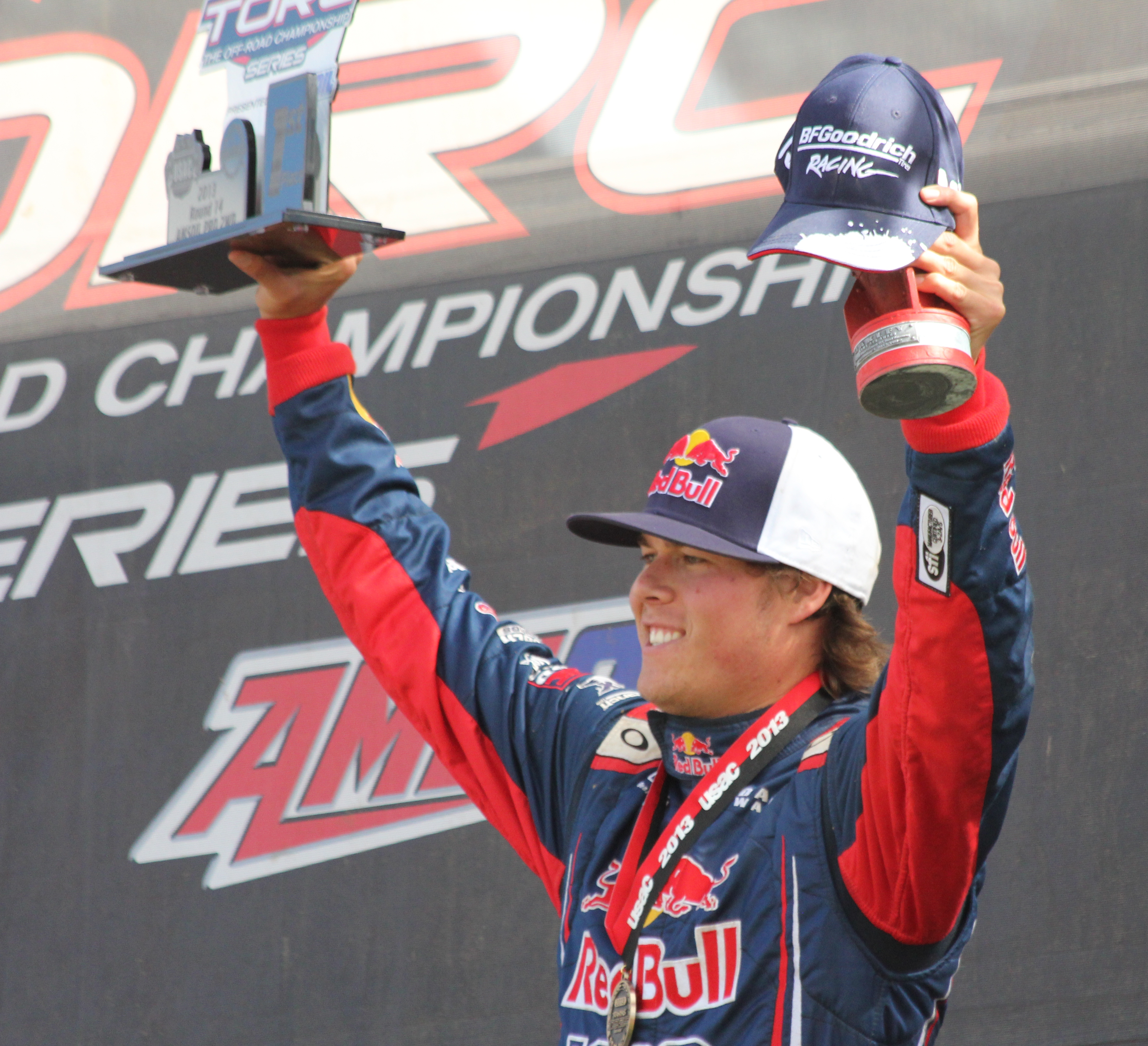 Pro 2 TORC and LOORRS Series driver Bryce Menzies on the podium after his Pro 2 class win at Crandon International Off-Road Raceway.